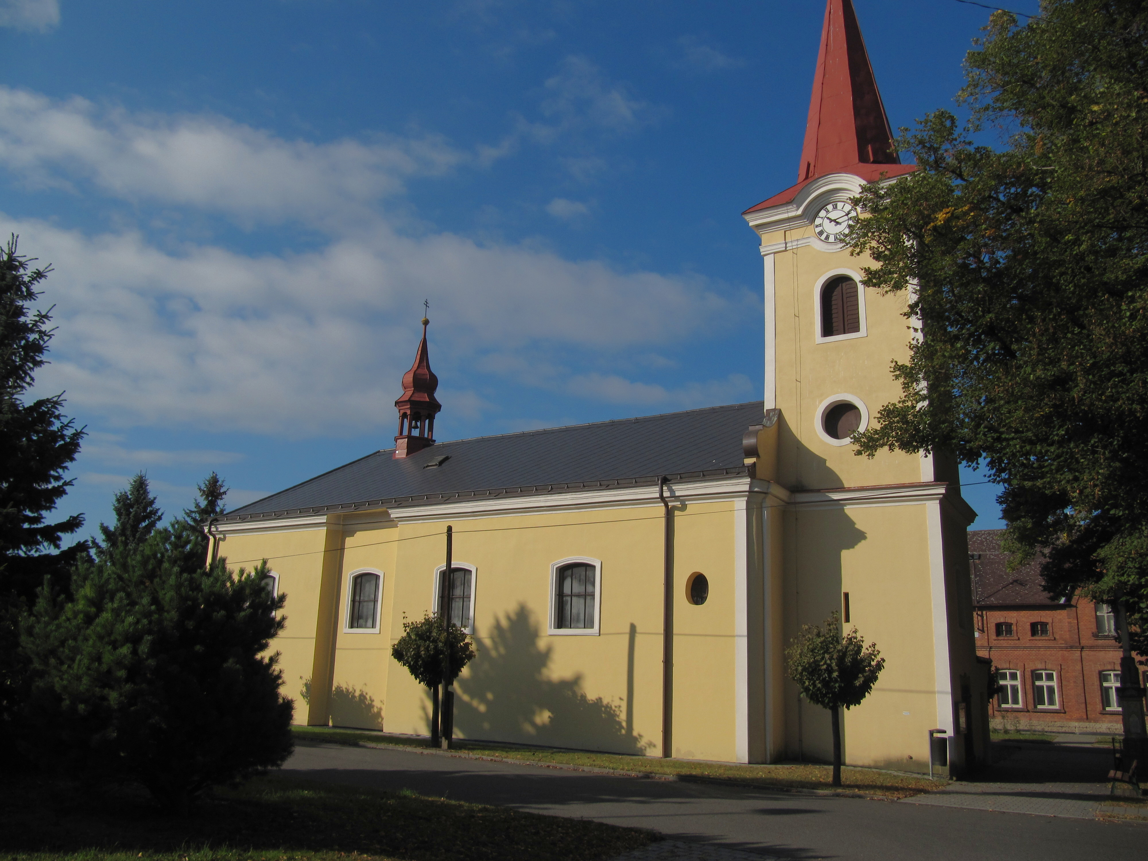 Třebětice in Kroměříž District, Czech Republic. St. Wendelin-church from 1791-1794.